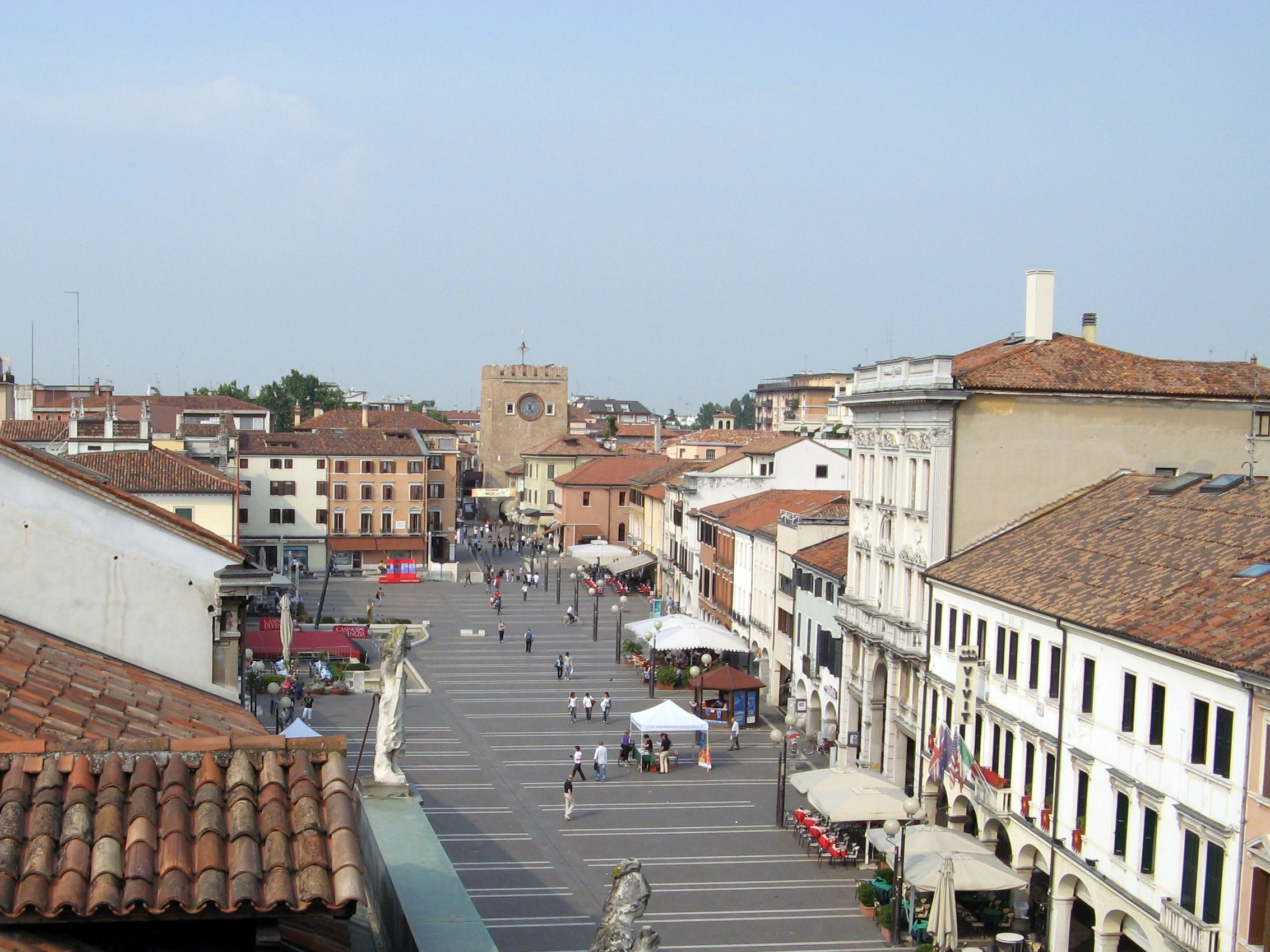 Piazza Ferretto in Mestre